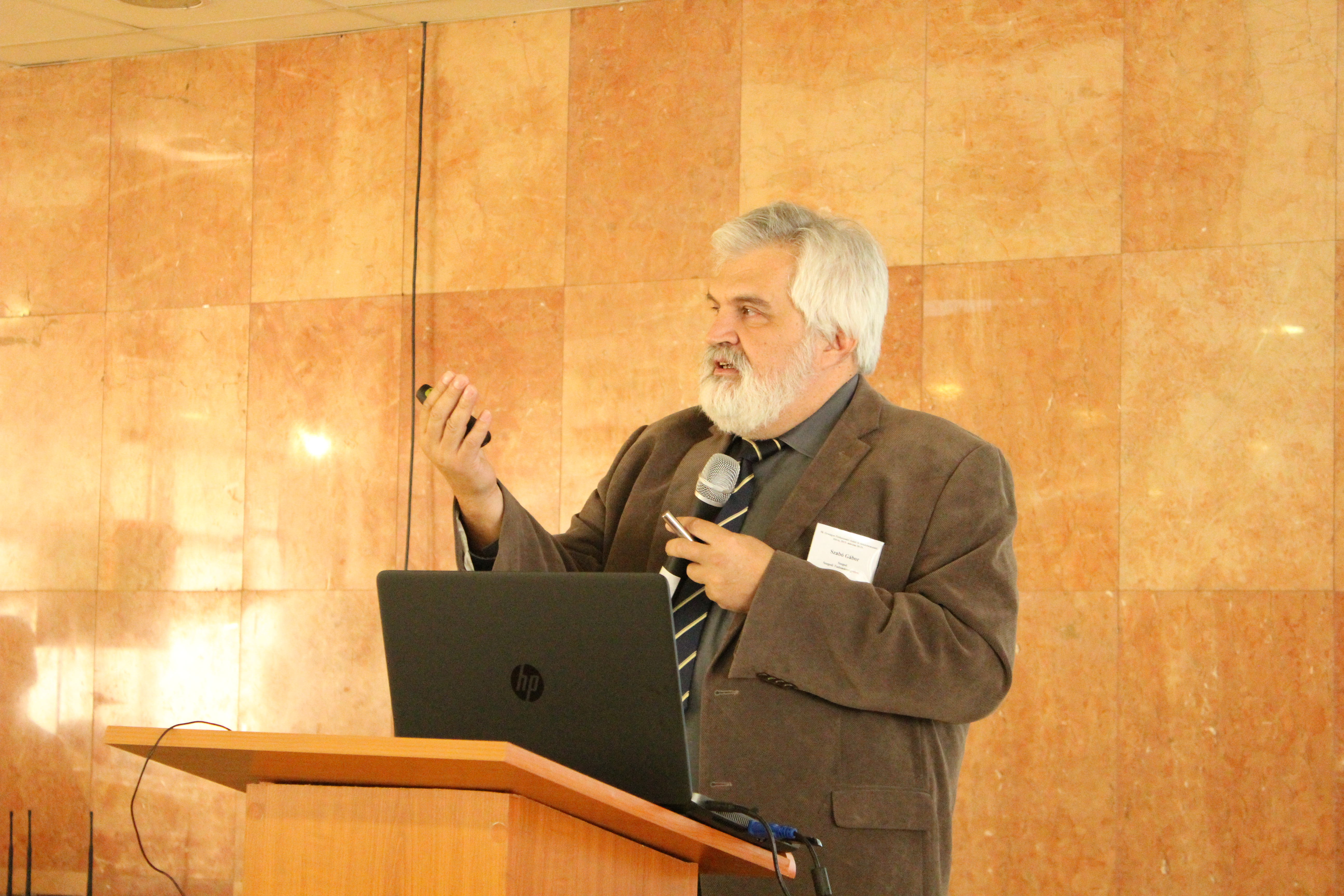 Gábor Szabó, Hungarian physicist.